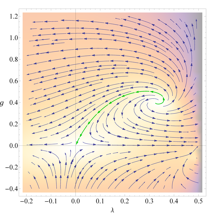 Flow diagram of QEG in the Einstein-Hilbert truncation: RG flow of the cosmological constant and Newton's constant. The diagram is based on a sharp cutoff (i.e. a function which is constant except for a step a the RG scale k such that it vanishes for all momenta larger than k). Green arrows connect the non-Gaussian to the Gaussian fixed point.